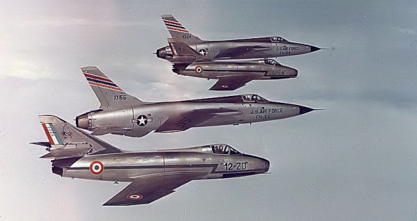 Two French Dassault Super Mystère B.2 fighters fly in formation with two U.S. Air Force Republic F-105D Thunderchief aircraft, in 1964. The Super Mystères belonged to the Escadron de chasse 1/12 Cambrésis based at Cambrai air base (BA 103), departement Nord, France. The F-105Ds (s/n 61-0155, 61-0124) were from the 22nd Tactical Fighter Squadron, 36th Tactical Fighter Wing, based at Bitburg air base, Germany. The F-105D 61-0124 was later in service with the 469th TFS, 388th TFW, at Korat Royal Thai Air Force Base. It was shot down over North Vietnam on 20 November 1967 by a Mikoyan Gurevich MiG-21 with an Atoll air-to-air missile. The pilot became a Prisoner of War.